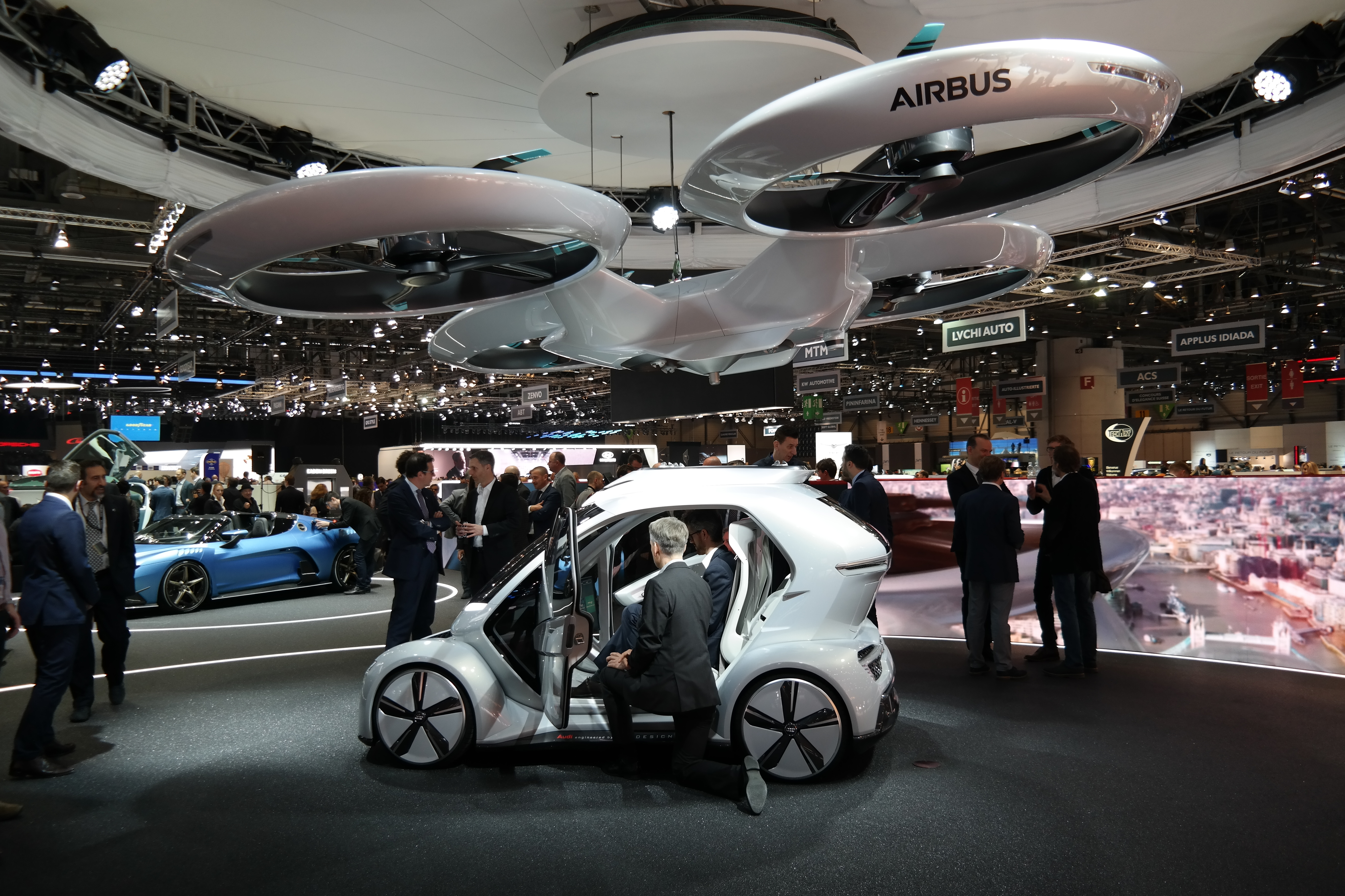 Geneva Motor Show 2018 (photo taken on the first press day)